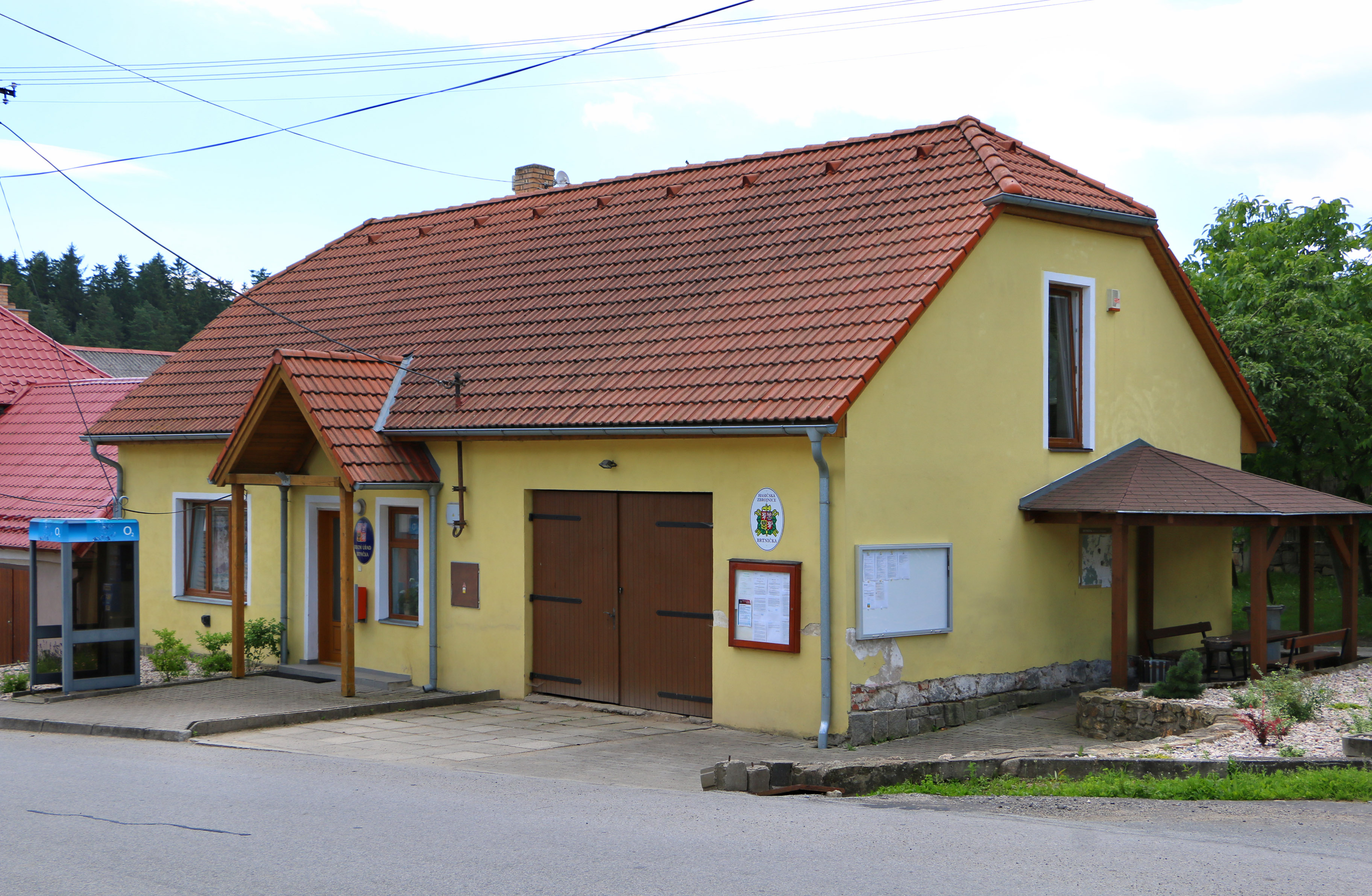 Municipal office in Brtnička, Czech Republic.